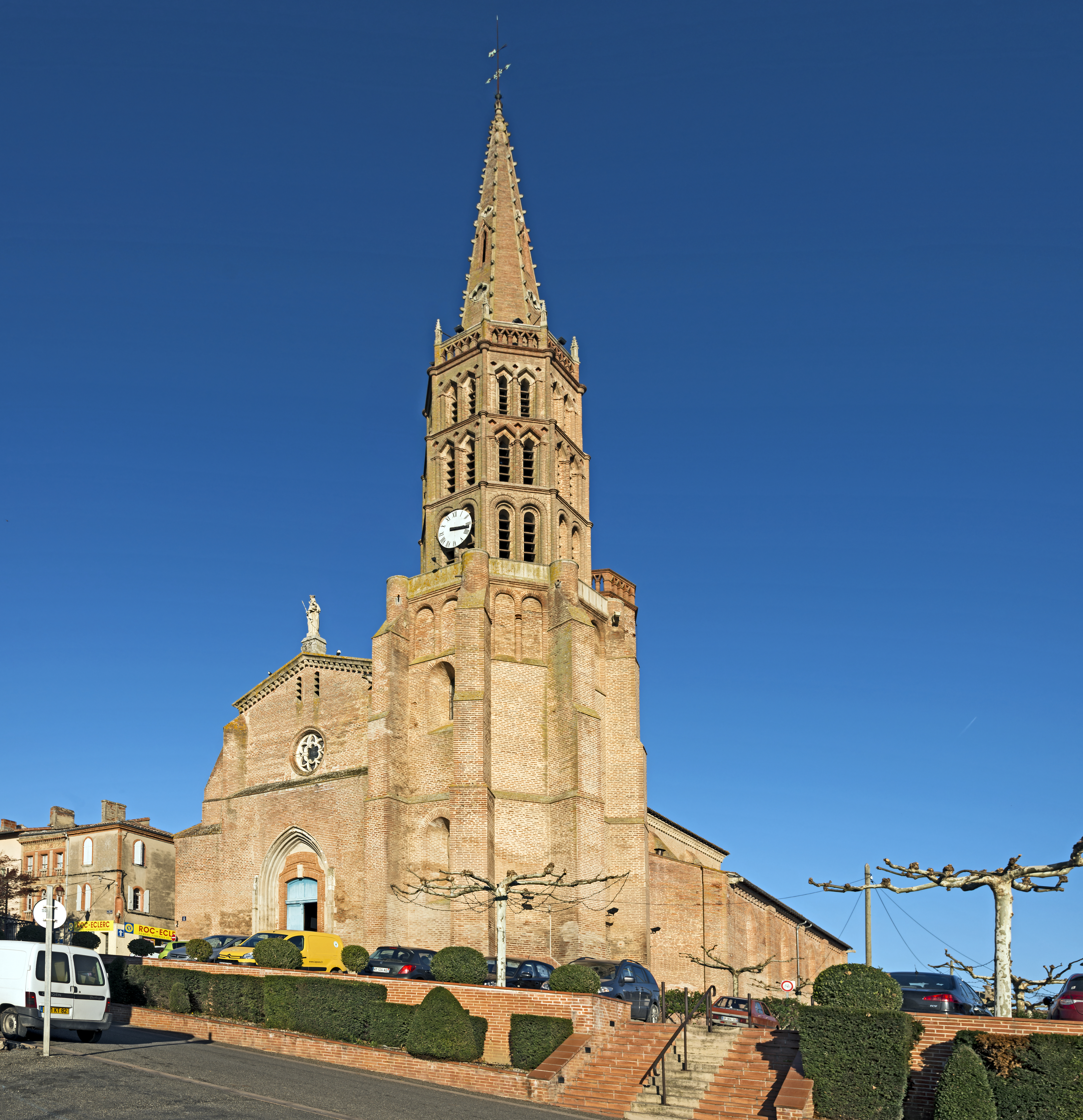 Montech Tarn-et-Garonne, France - Our Lady of the Visitation Church - XIV and XV century.